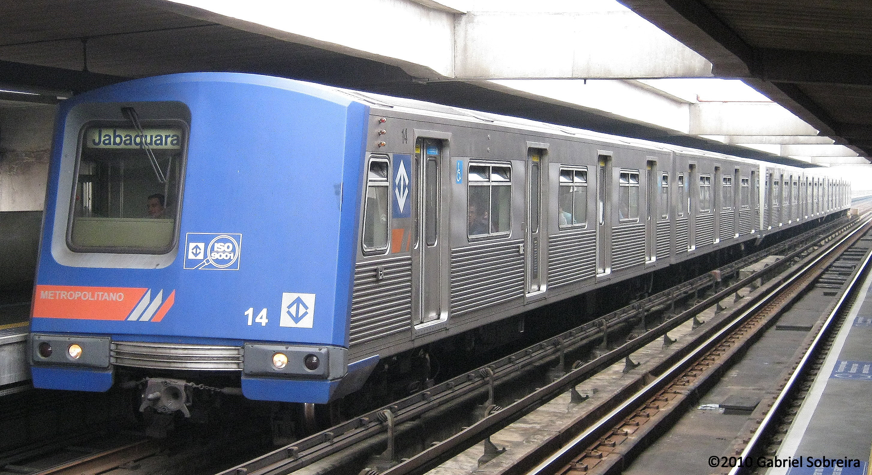 Budd stopped train station Portuguesa-Tietê